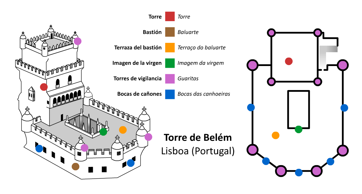 Architecture and floor plan of the Belém Tower, Lisbon, Portugal